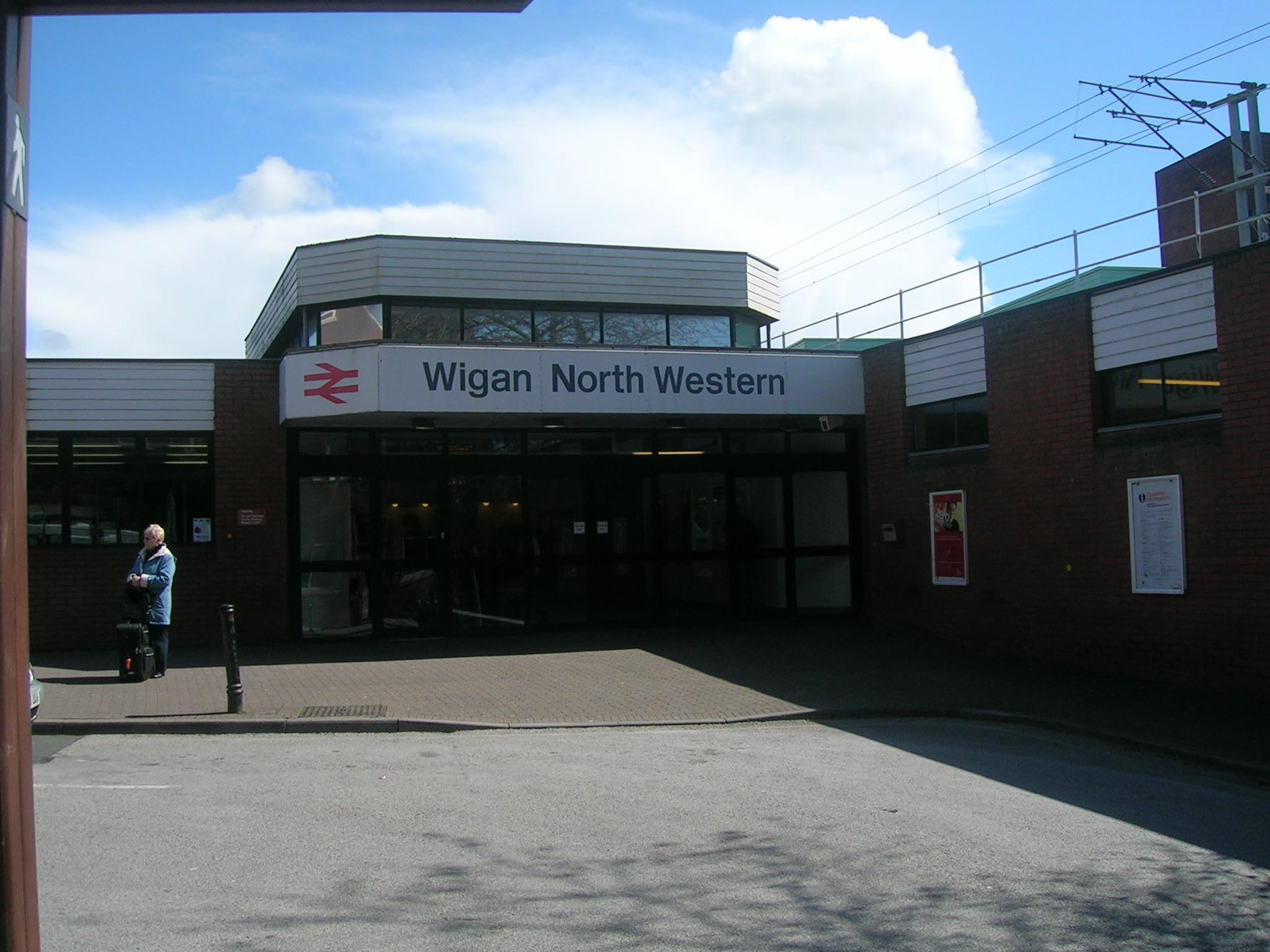 This is the main station in Wigan, which is on the West Coast Main Line and has trains that call here go to places like London Euston, Glasgow and beyond.